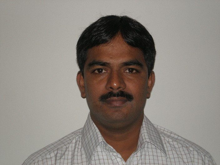 Suresh Venapally is the receiver of Shanti Swaroop Bhatnagar award for 2009 in Mathematical Sciences